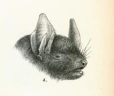 Myotis montivagus (syn. Vespertilio montivagus), head